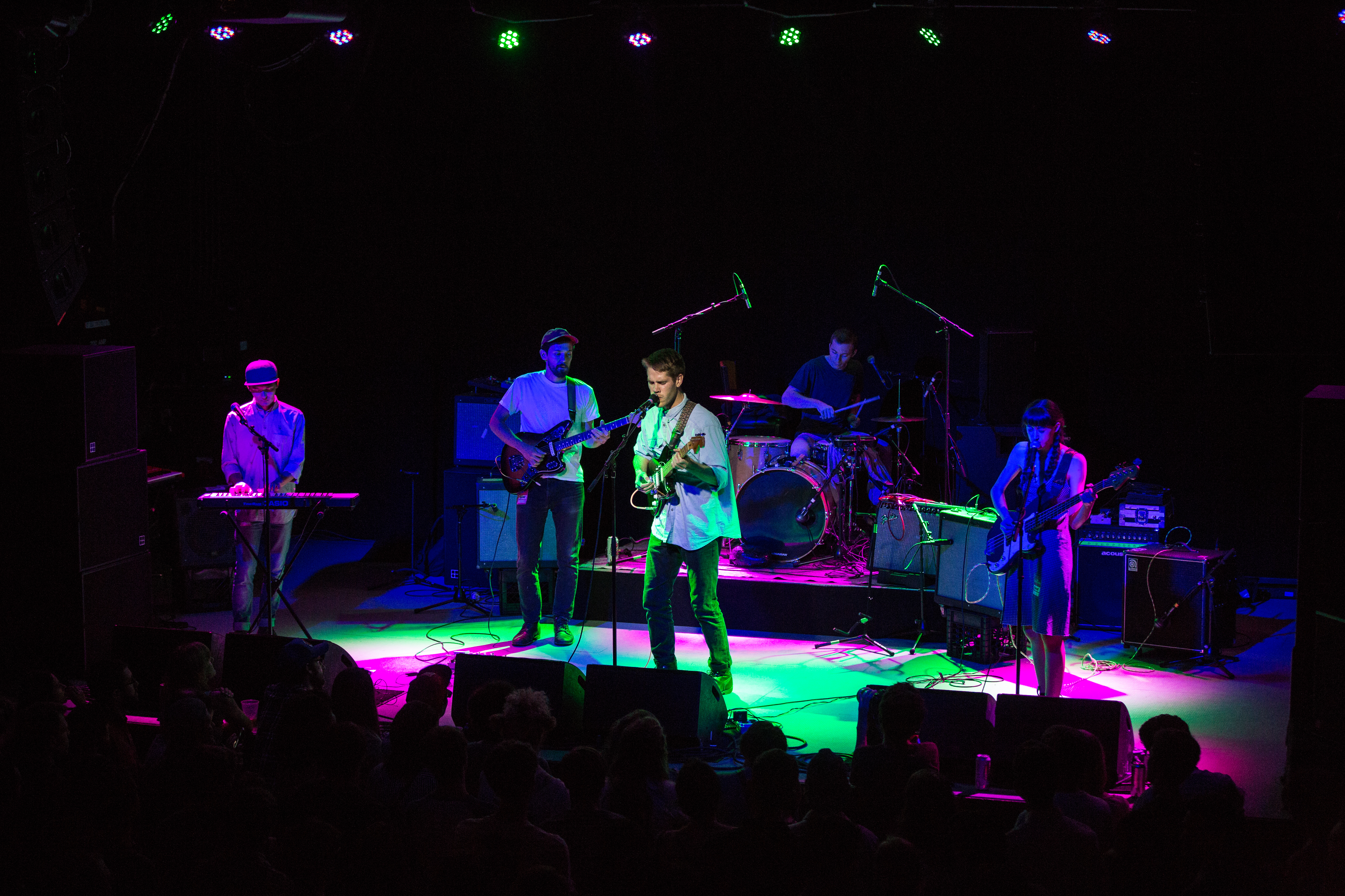 Porches performing at The Sinclair in Cambridge, Massachusetts on July 30, 2014